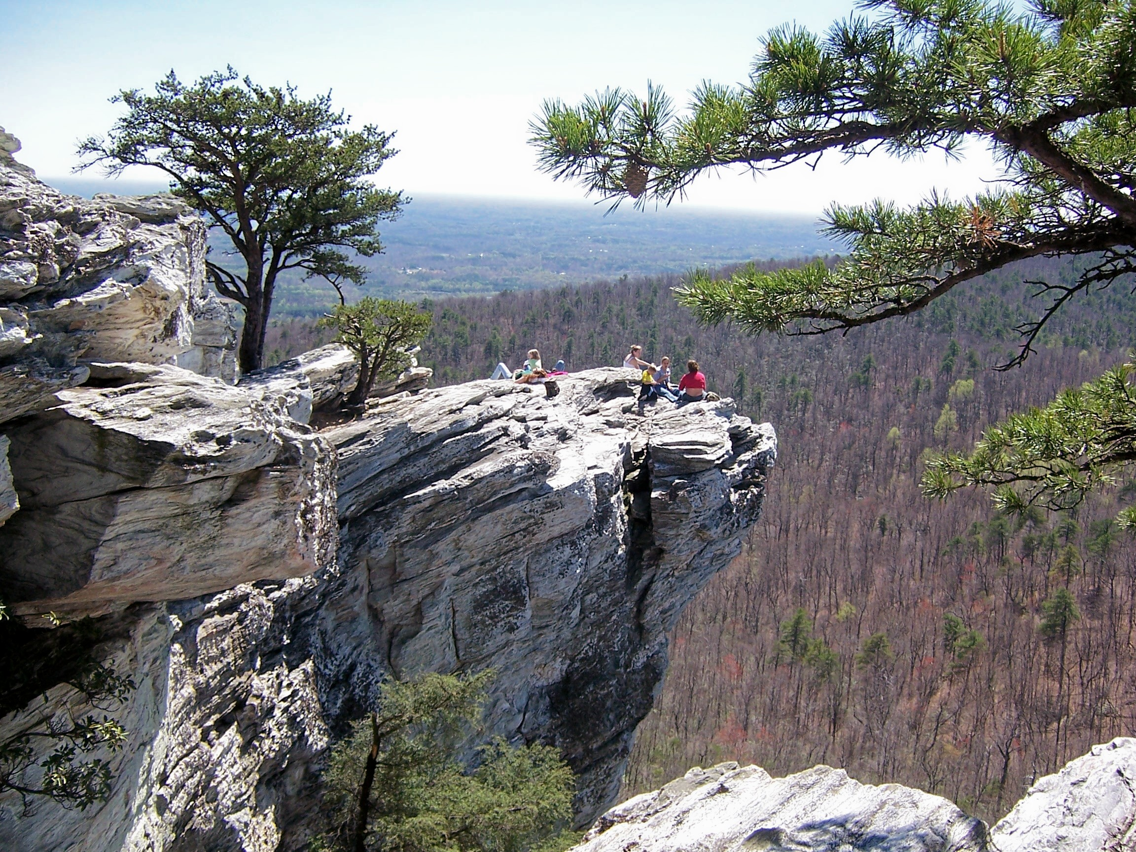 Hanging Rock, North Carolina. Trees are Pinus pungens.